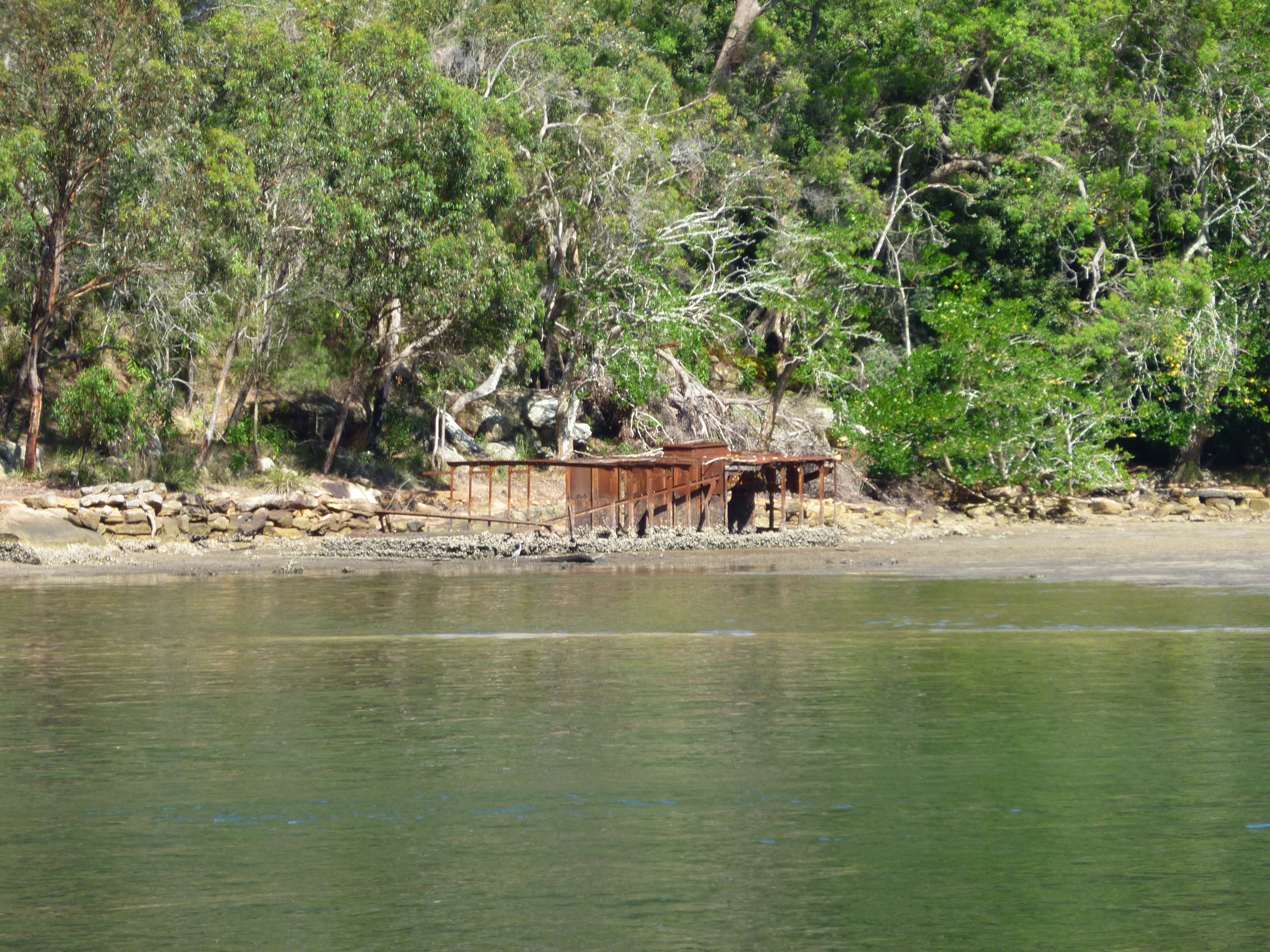 Windybank's Boatshed at Waratah Bay